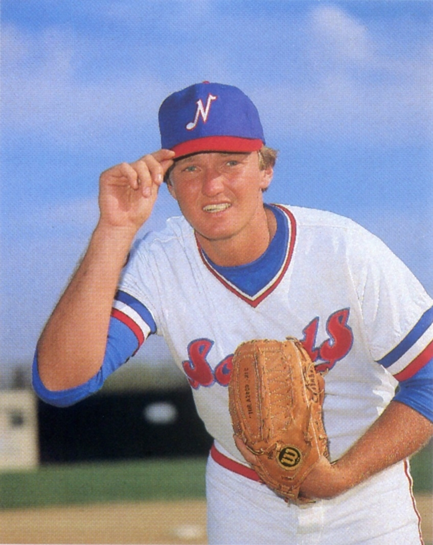 Pitcher Ben Callahan of the 1982 Nashville Sounds Minor League Baseball team of the Southern League